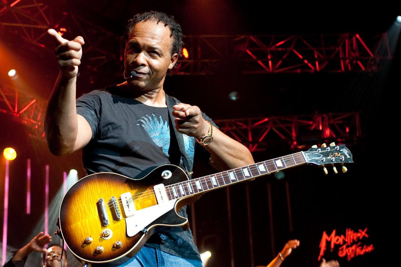 Ray Parker Jr. live at the Montreux Jazz Festival - July 15th, 2009